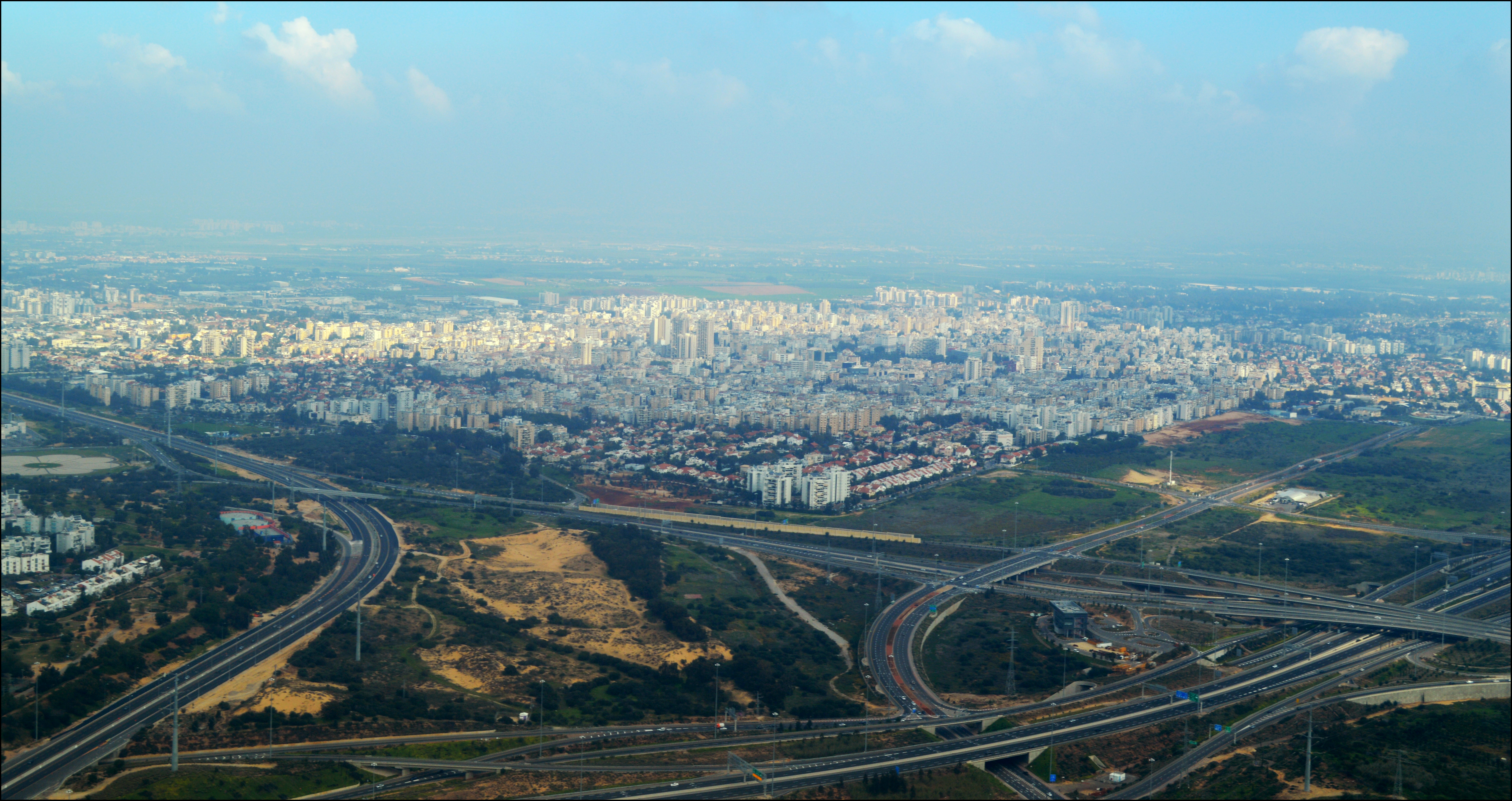 Rishon LeZion Aerial View